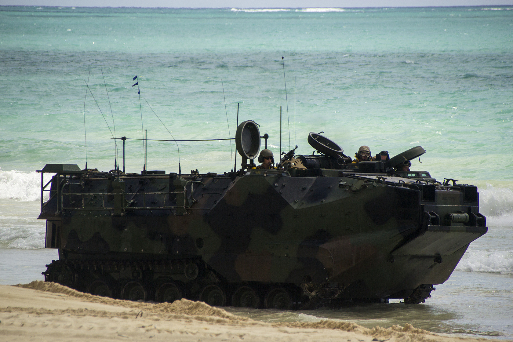 An amphibious assault vehicle with Combat Assault Company, 3rd Marine Regiment, drives along the beach aboard Marine Corps Training Area Bellows, July 12, after sailing from the USS Rushmore to support ground forces during Rim of the Pacific (RIMPAC) Exercise 2014, the world’s largest international maritime exercise. AAVs, Landing Craft Air Cushions, internally transportable vehicles and numerous troops conducted an amphibious landing at MCTAB, July 11. Twenty-two nations, 49 ships and six submarines, more than 200 aircraft and 25,000 personnel are participating in RIMPAC from June 26 to August 1, in and around the Hawaiian Islands and Southern California. RIMPAC provides a unique training opportunity that helps participants foster and sustain the cooperative relationships that are critical to ensuring the safety of sea lanes and security on the world's oceans. (U.S. Marine Corps photo by Cpl. Matthew J. Bragg)